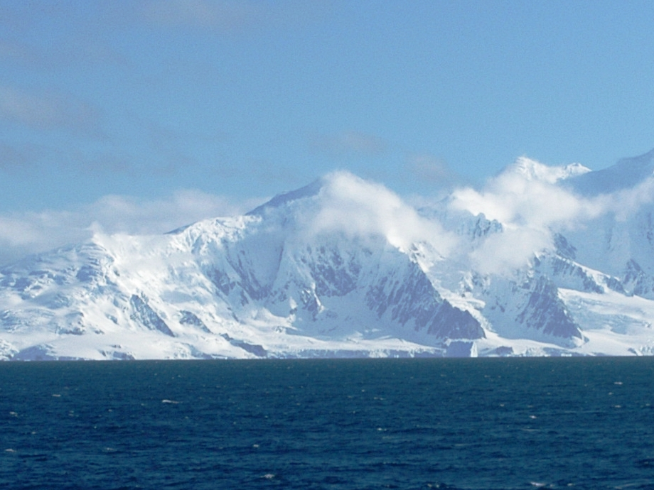 Riggs Peak, Smith Island, South Shetland Islands. Derivative work, fragment of the photo of Smith Island, Antarctica, taken from deck of R/V Lawrence M. Gould by Cfrohlich, Cliff Frohlich, Univ. Texas Austin